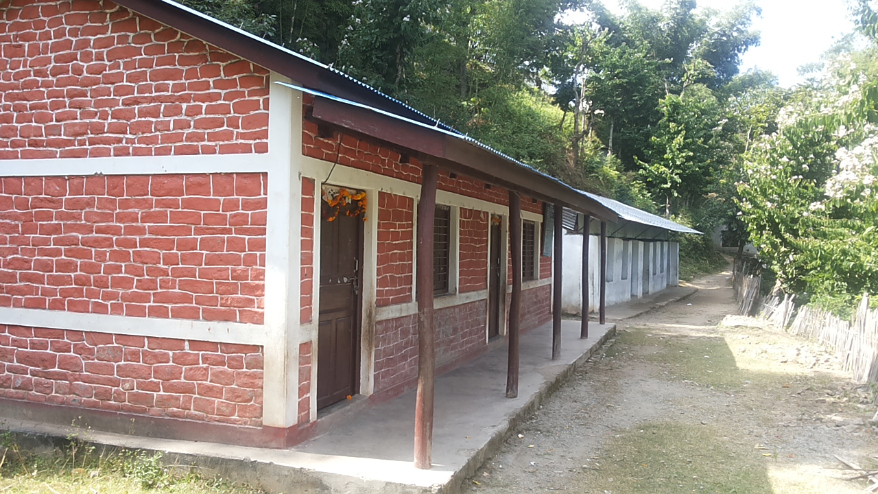 बेलायती संस्था DFID ले बनाईदिएको विद्यालय भवन ।